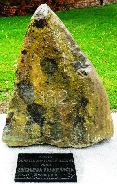 1812 Stone commemorating Napoleon's army marched through Guben.